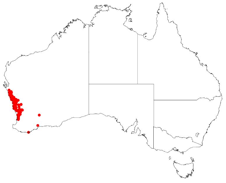 Conostylis androstemma Occurrence data downloaded from Australasian Virtual Herbarium on 12 May 2017